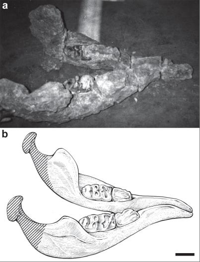 An in-situ photograph and an interpretive drawing of the lost Sinomammut mandible.